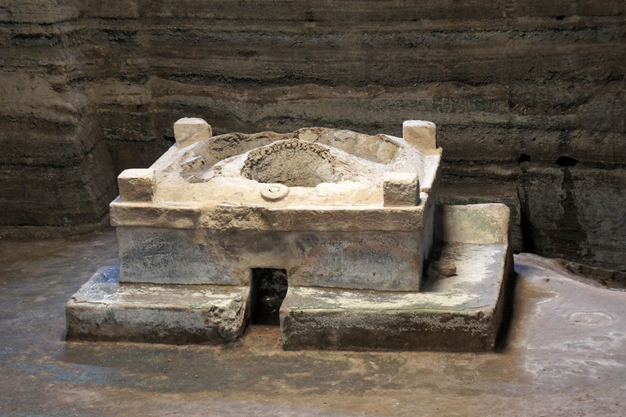 Tamazcal (Structure 9) excavated at Area 2. Remains of maya village of Joya de Cerén buried by volcano eruption around A.D. 600 (El Salvador).